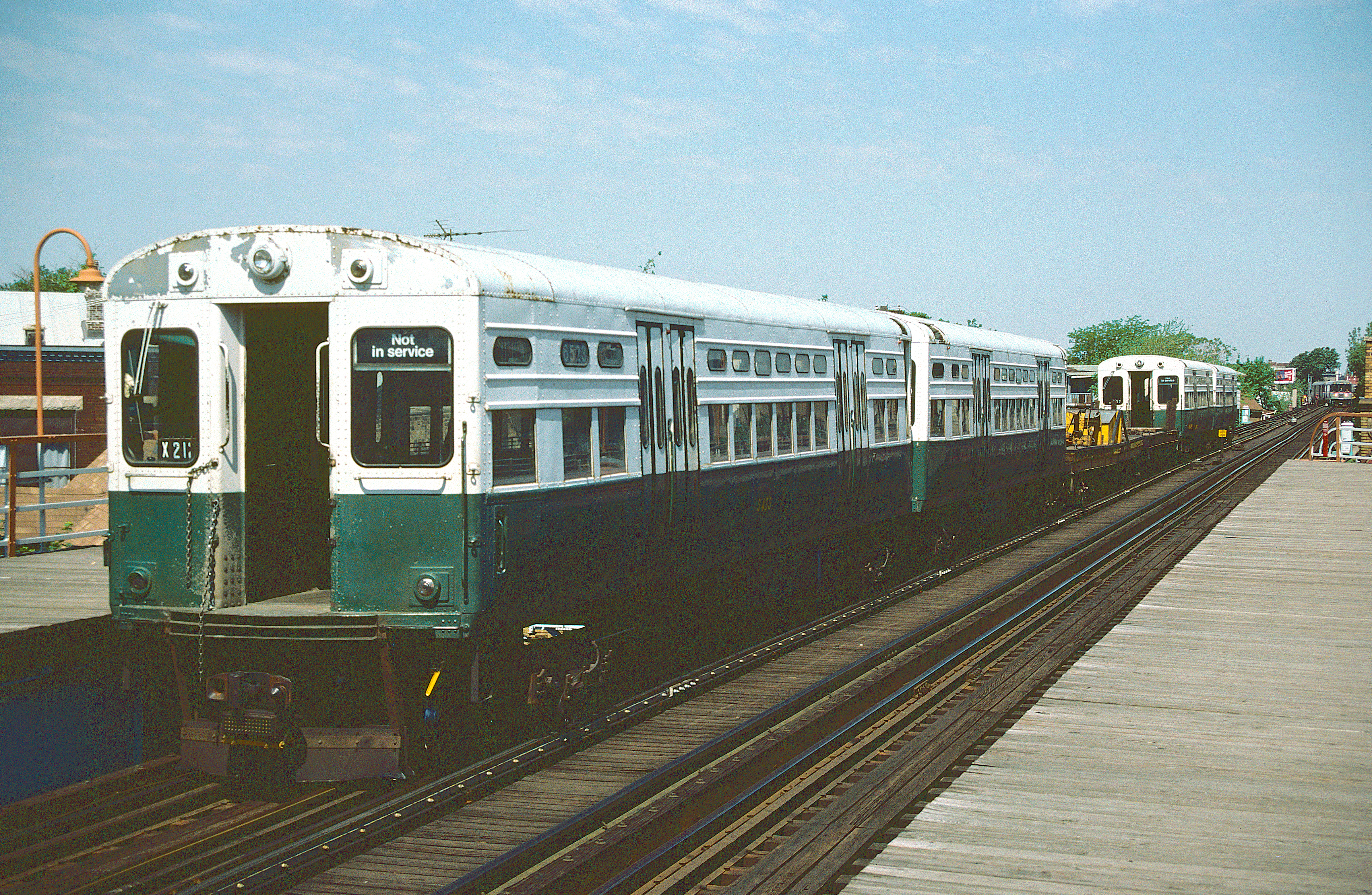 Chicago Transit Authority 6523 in work train service at California Avenue on the Milwaukee (Blue) Line in Chicago, Illinois on May 19, 1985, Kodachrome by Chuck Zeiler.